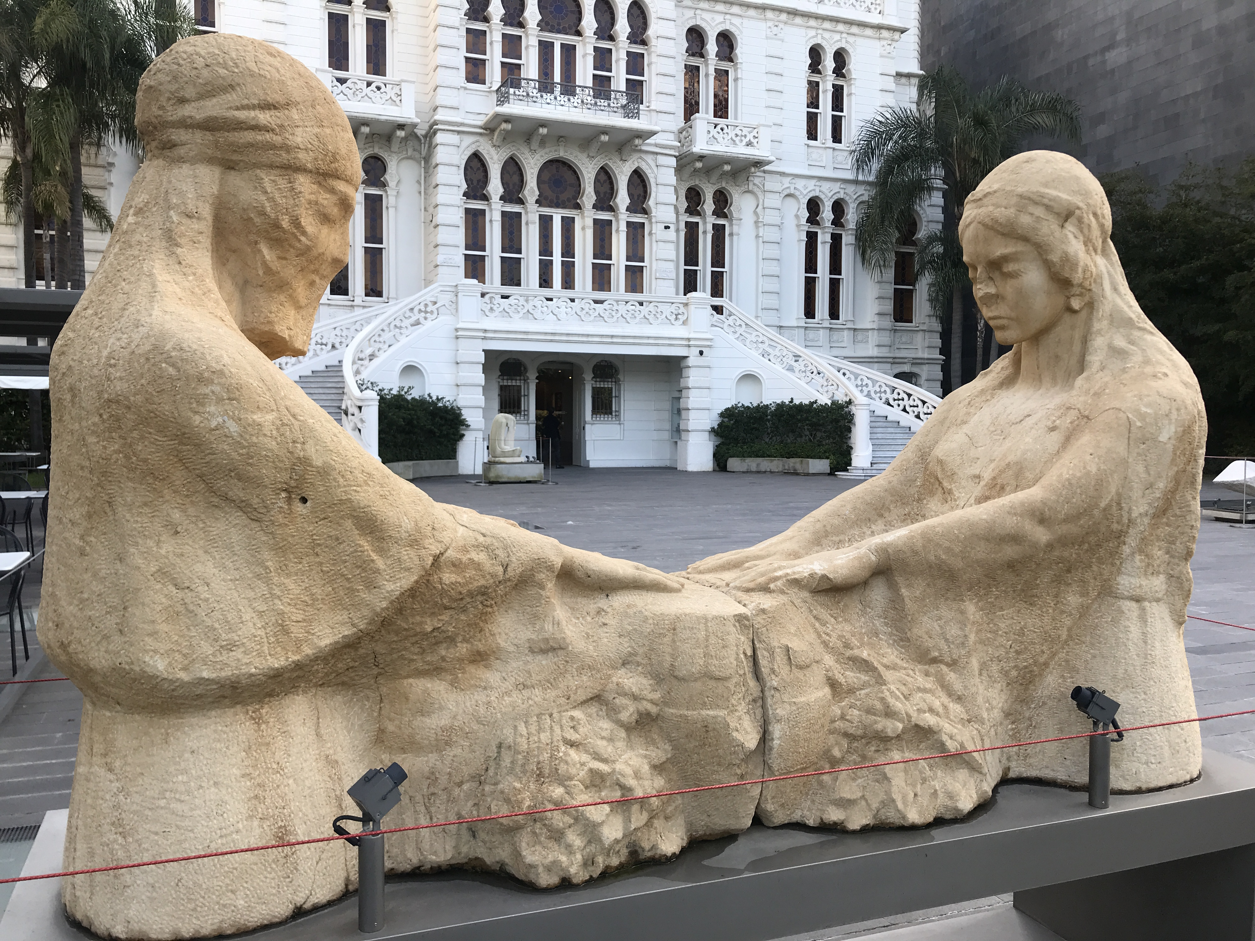 Remnant of original statue, Les Pleureuses by Youssef Hoyek, placed on Martyr's Square in Beirut in 1930. However, due to popular opposition to the statue deemed too "feminine," it was attacked and eventually replaced in 1953. The remnant was gifted to the Sursock Museum where it is now on display in the courtyard in front of the museum.